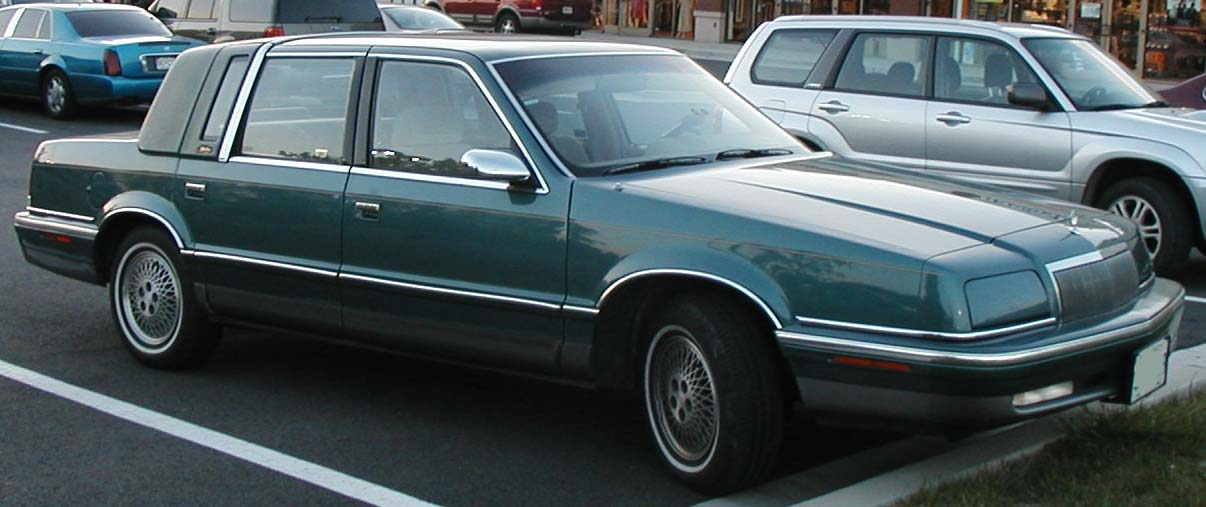 1990-1993 Chrysler Fifth Avenue photographed in USA.